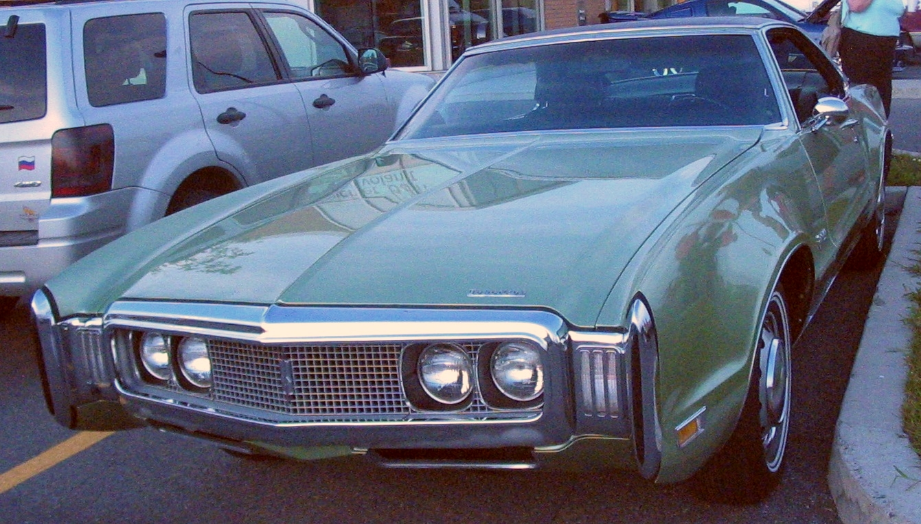 1970 Oldsmobile Toronado photographed in Vaudreuil-Dorion, Quebec, Canada at the Auto classique Bellepros Vaudreuil-Dorion.